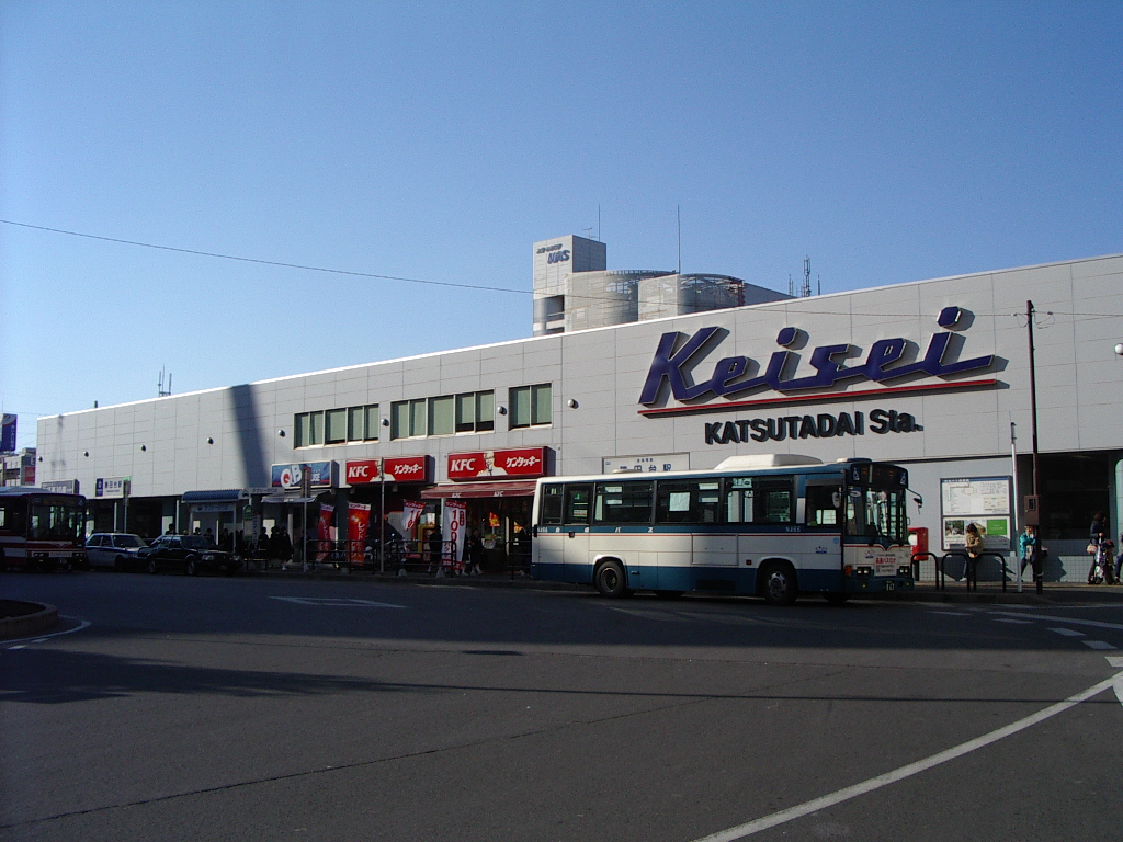 Katsutadai Station on Keisei Main Line. This station is located at Yachiyodai, Chiba.